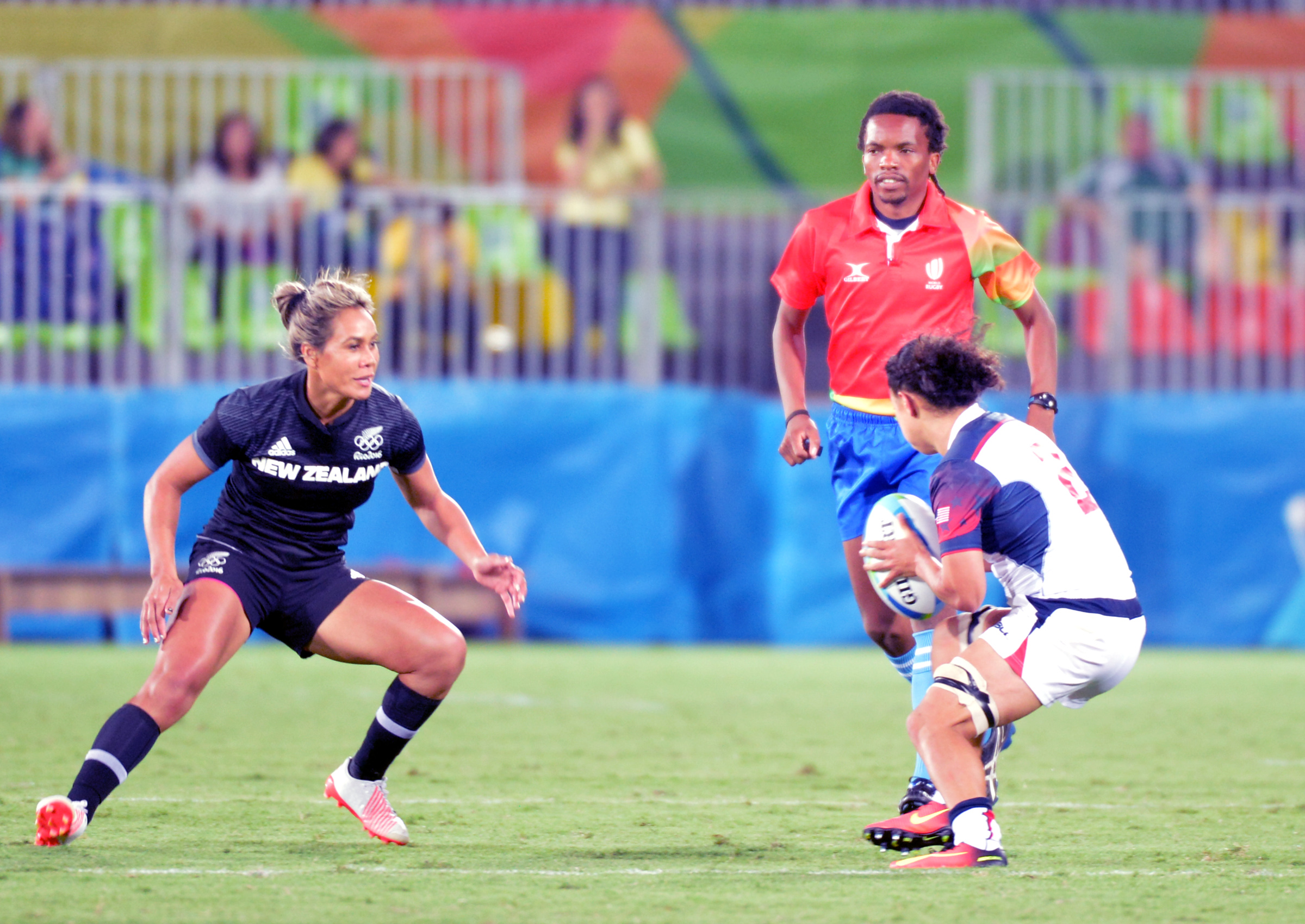 The U.S. women's rugby sevens squad, led by assistant coach Capt. Andrew Locke of the U.S. Army World Class Athlete Program, drops a 5-0 decision to New Zealand on Aug. 7 en route to a fifth-place finish in the tournament, the first in Olympic history for women's rugby sevens. U.S. Army photo by Tim Hipps, IMCOM Public Affairs